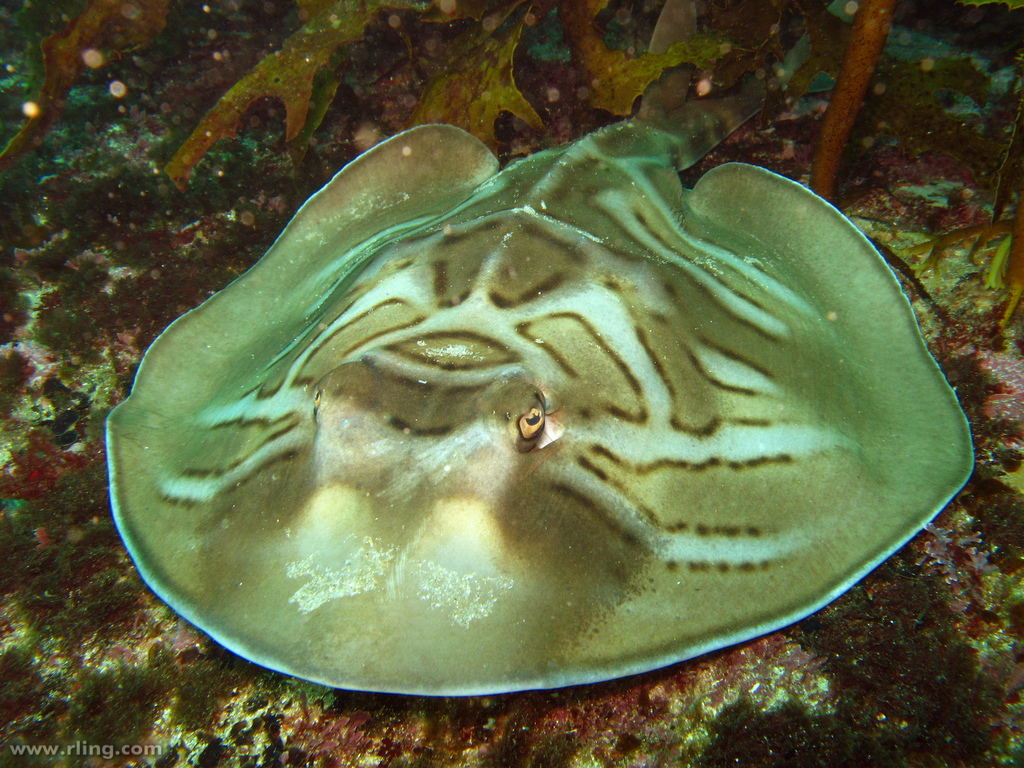 Eastern fiddler ray (Trygonorrhina fasciata). Inscription Pt, Botany Bay, NSW